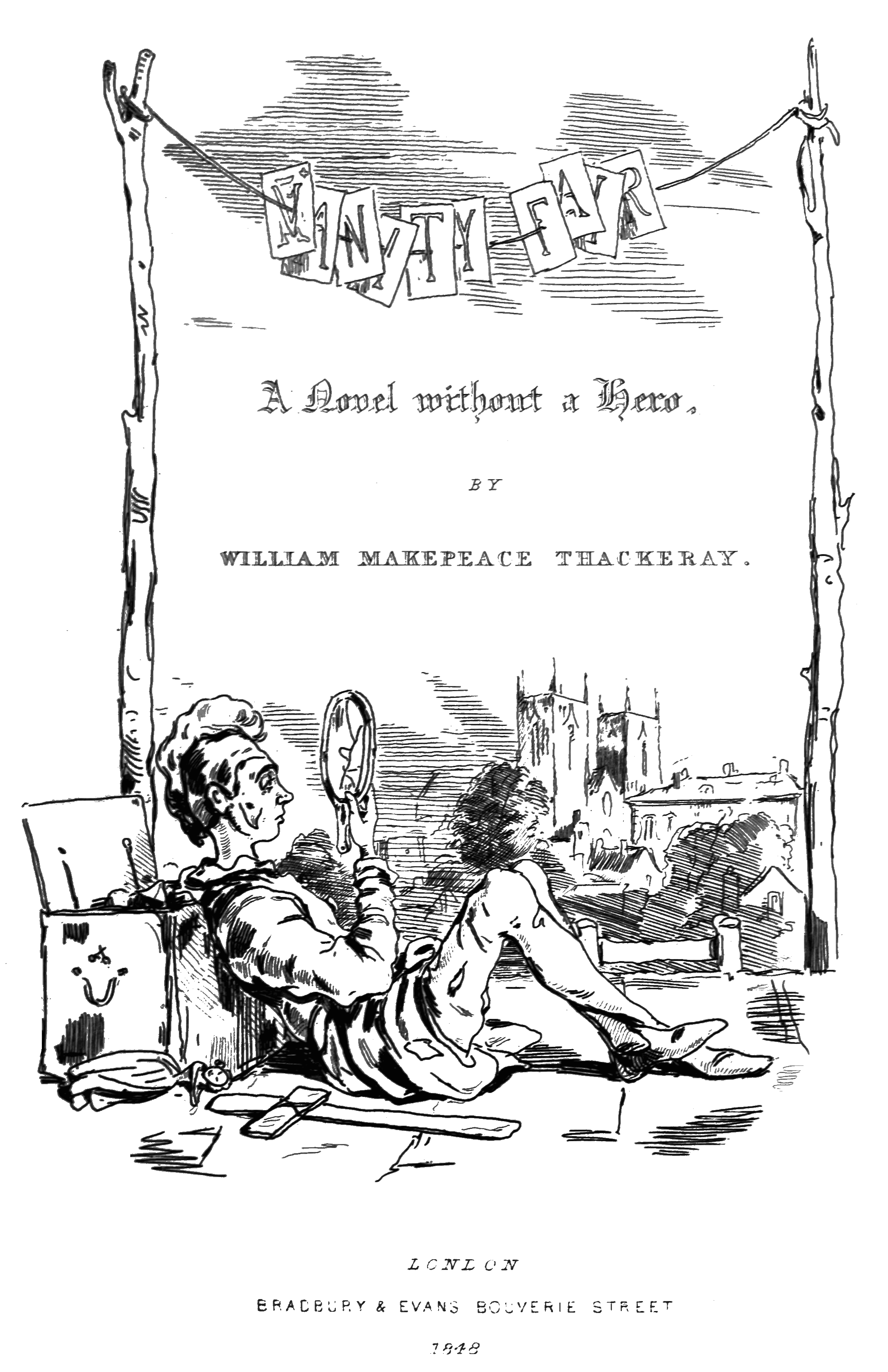 Frontispiece of the novel. The number indicates the Djvu page number of the Wikisource transclusion.